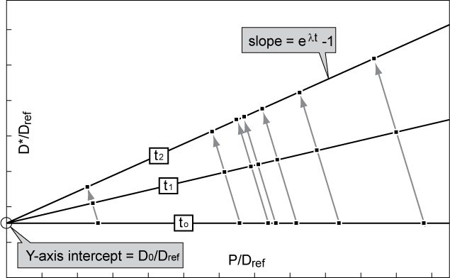 Schematic of an isochron plot